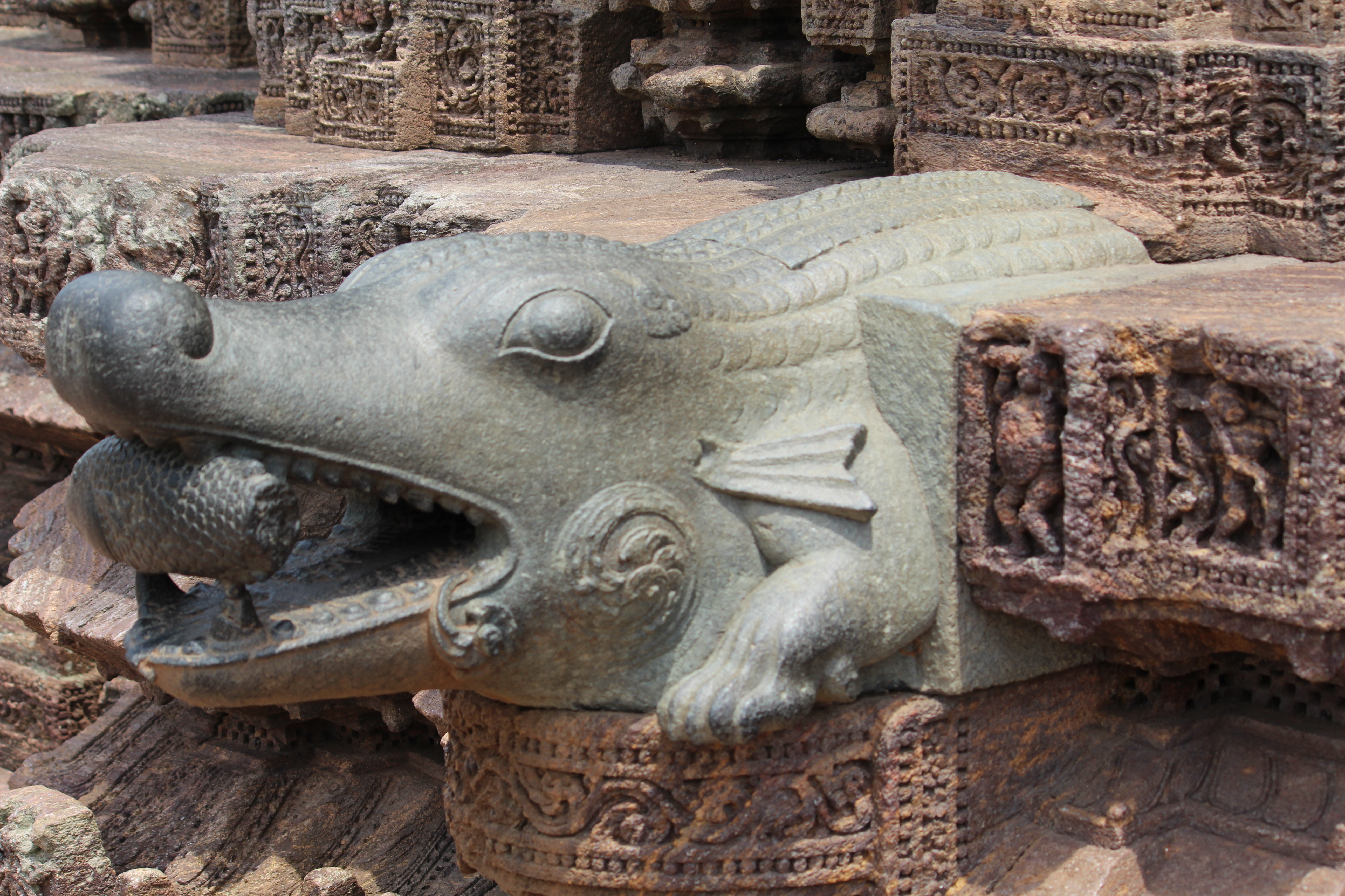 Makara face at Konark temple